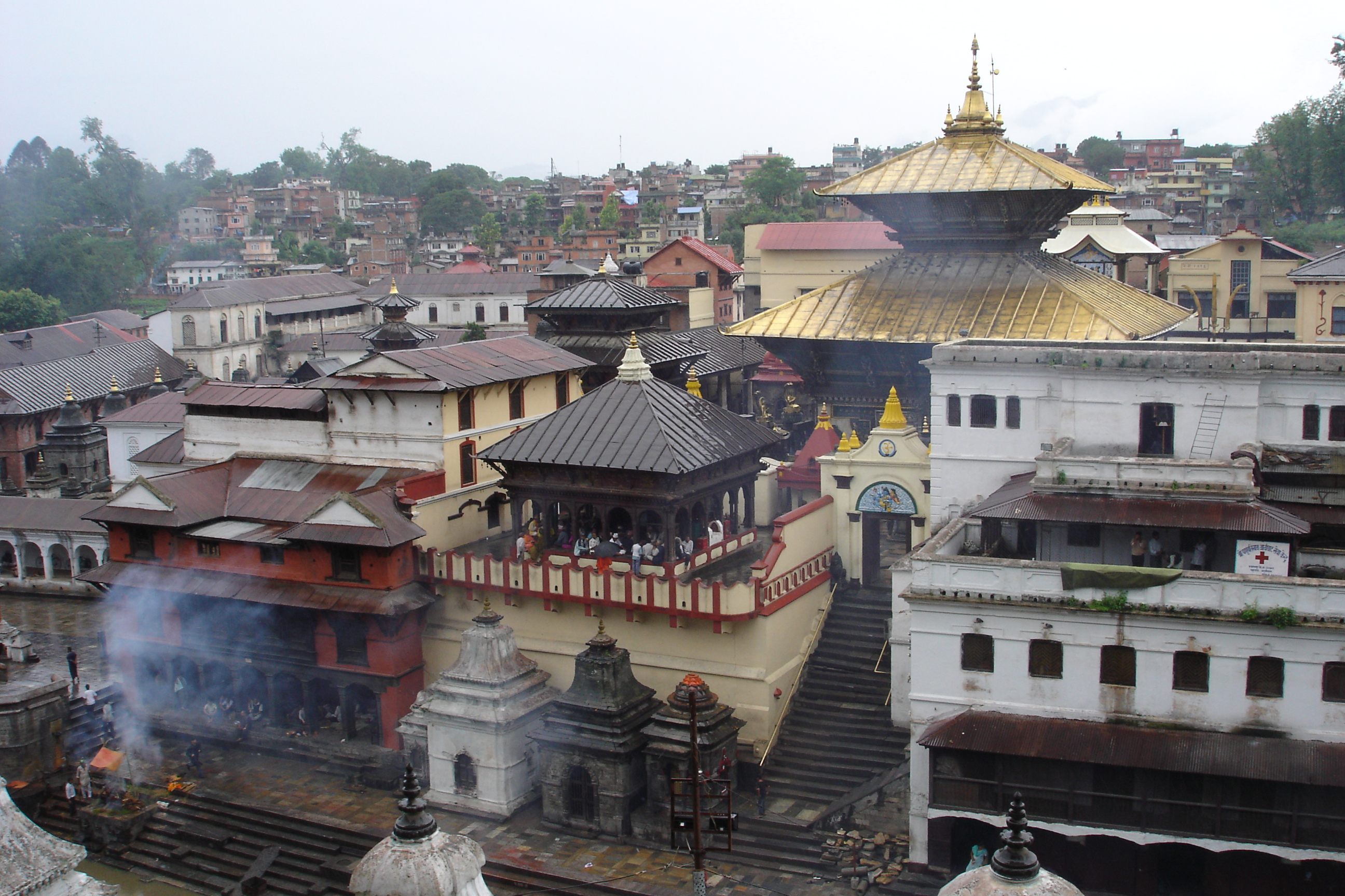 The Pashupatinath temple (Kathmandu, Nepal).